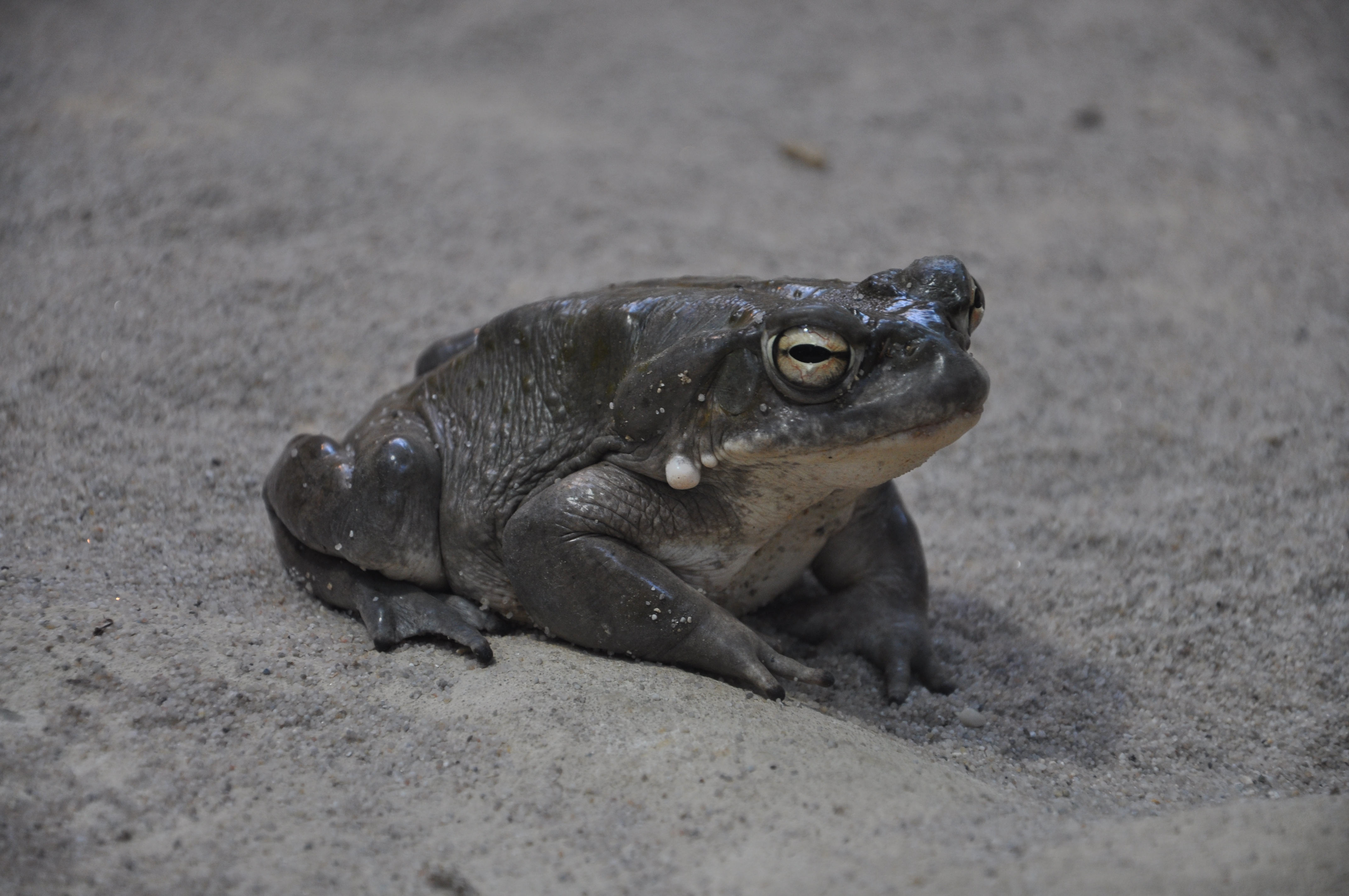 Sonoran Desert Toad, Colorado River Toad